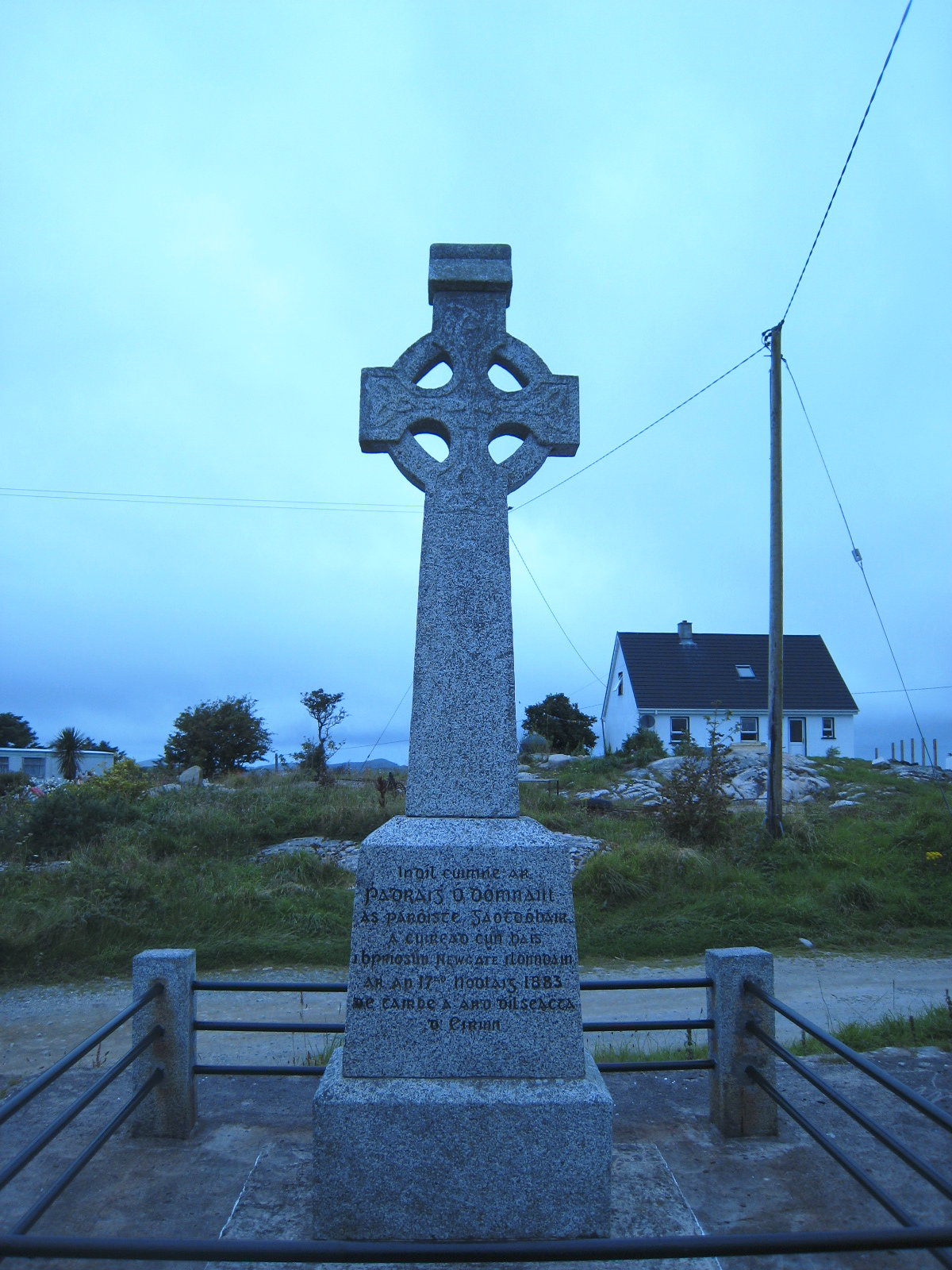 Cross in Derrybeg in commemoration of Patrick O'Donnell